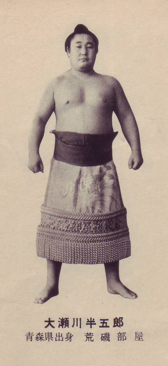 Ōsegawa Hangoro (Sumo wrestler. Maegashira). taken in 1958, or before that.